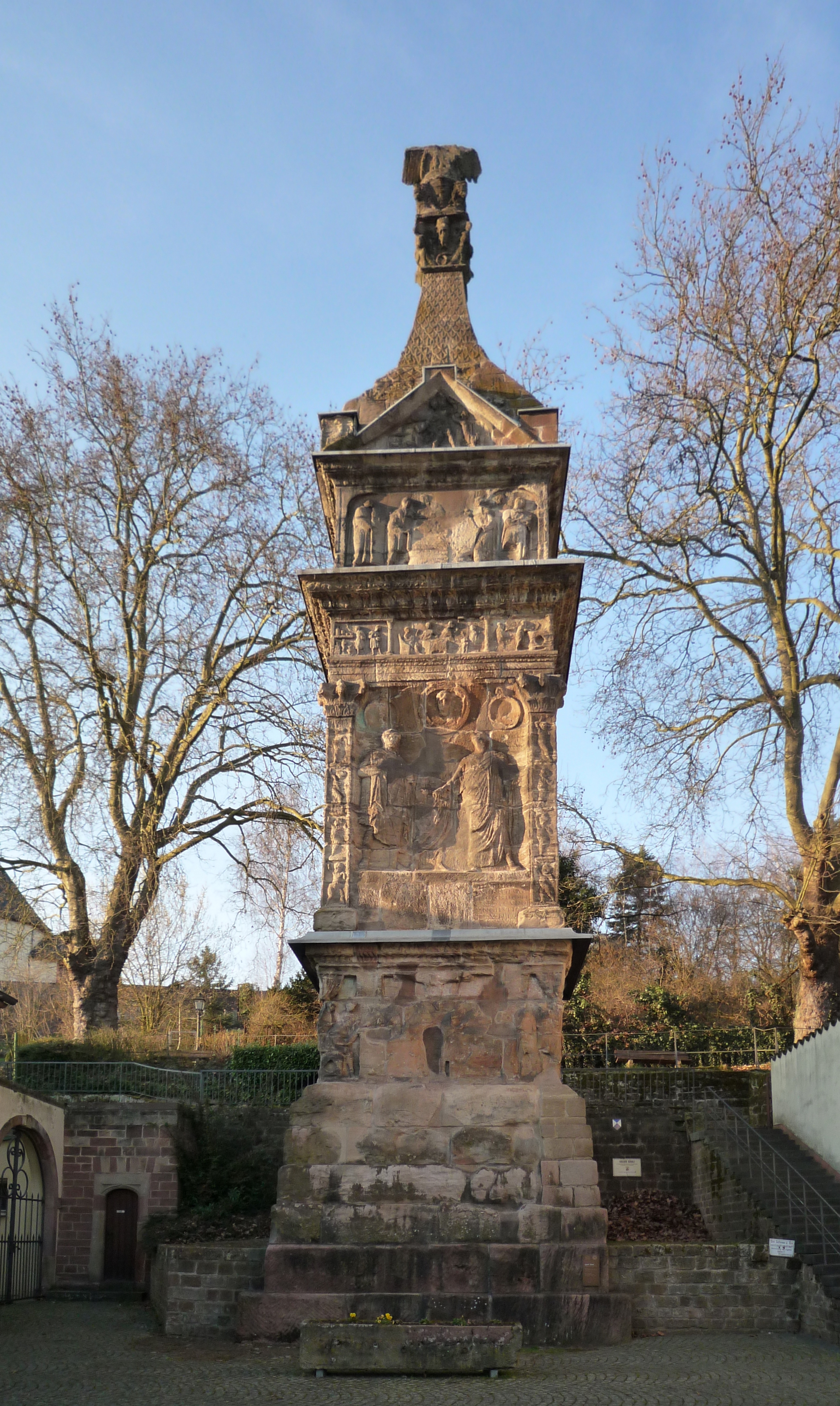 Igel column: ancient roman tomb, german UNESCO-World Heritage Site